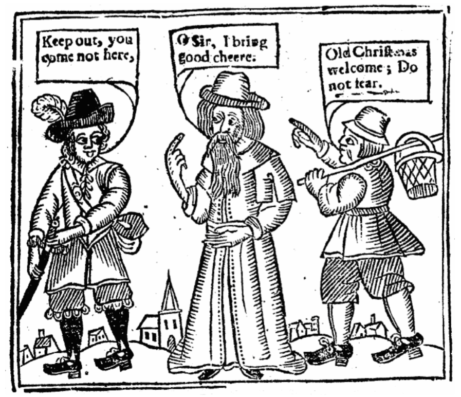 Frontispiece to John Taylor's pamphlet The Vindication of Christmas